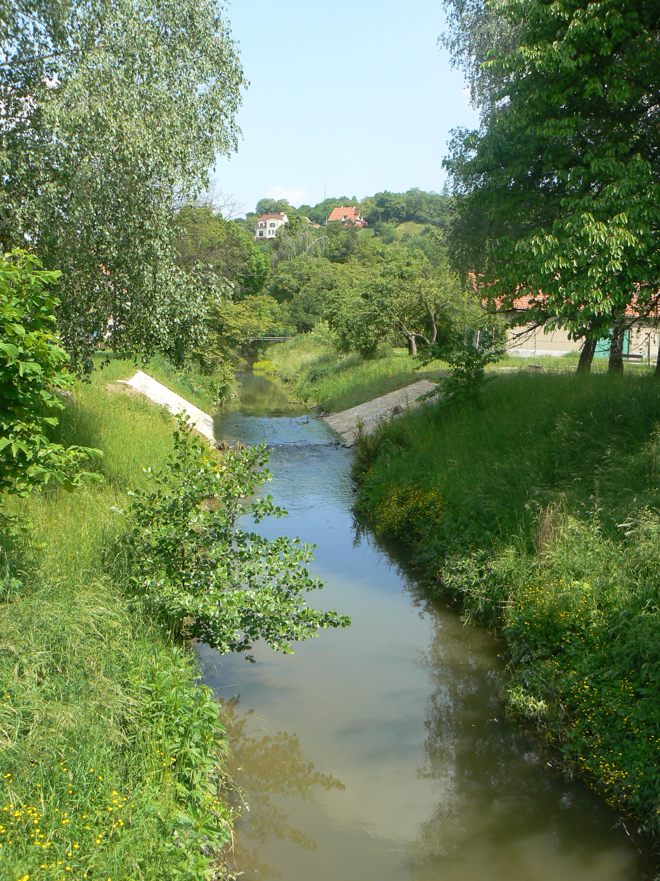 River Kyjovka in Bohuslavice. Kyjov, Hodonín District, Czech Republic.